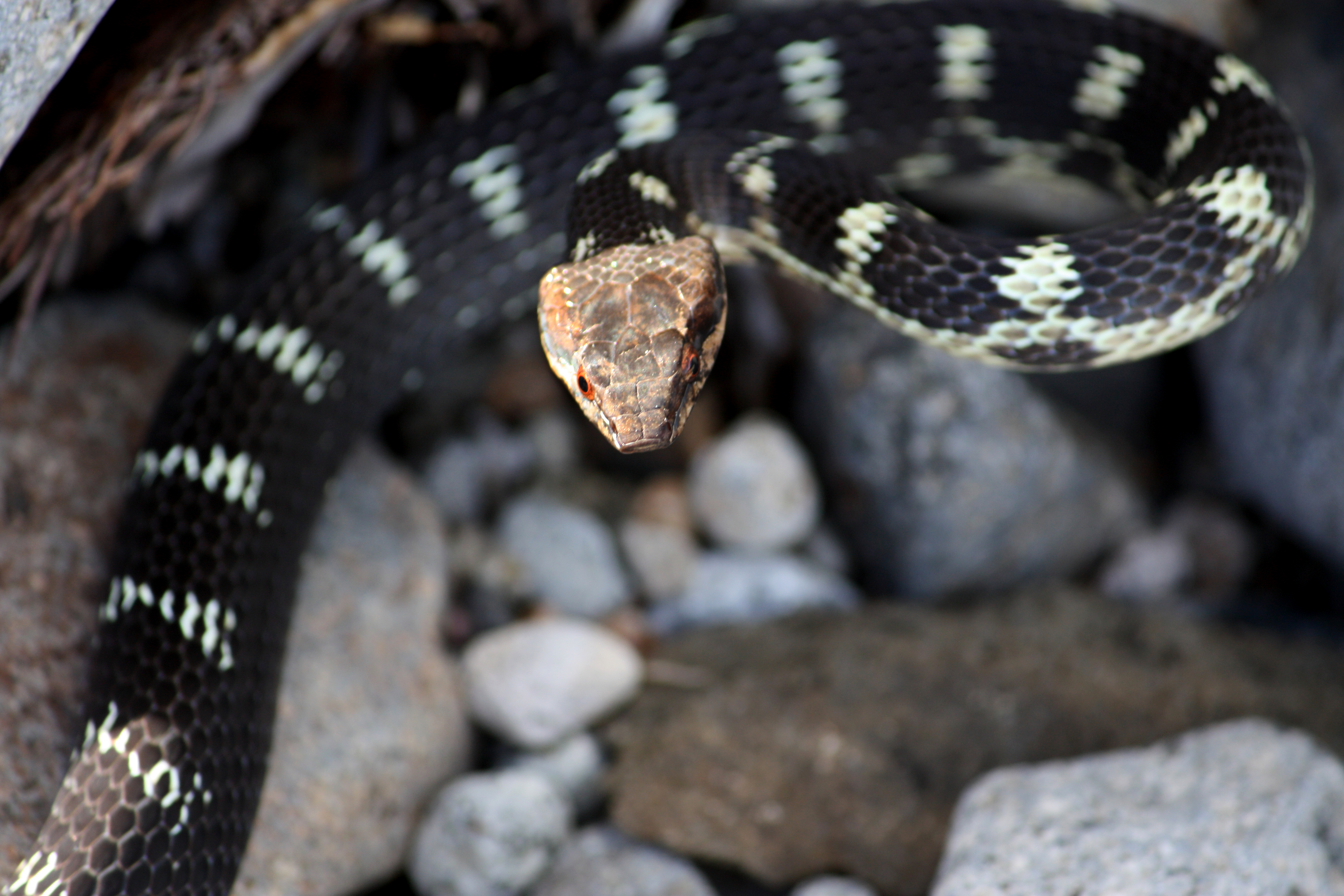 Antilles Racer (Alsophis antillensis). Atlantic shore at Rosalie, Dominica.